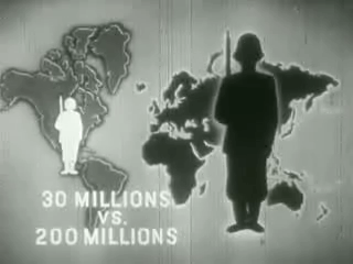 From "War Comes to America" - the dire consequences for the United States of an Axis victory in Eurasia.